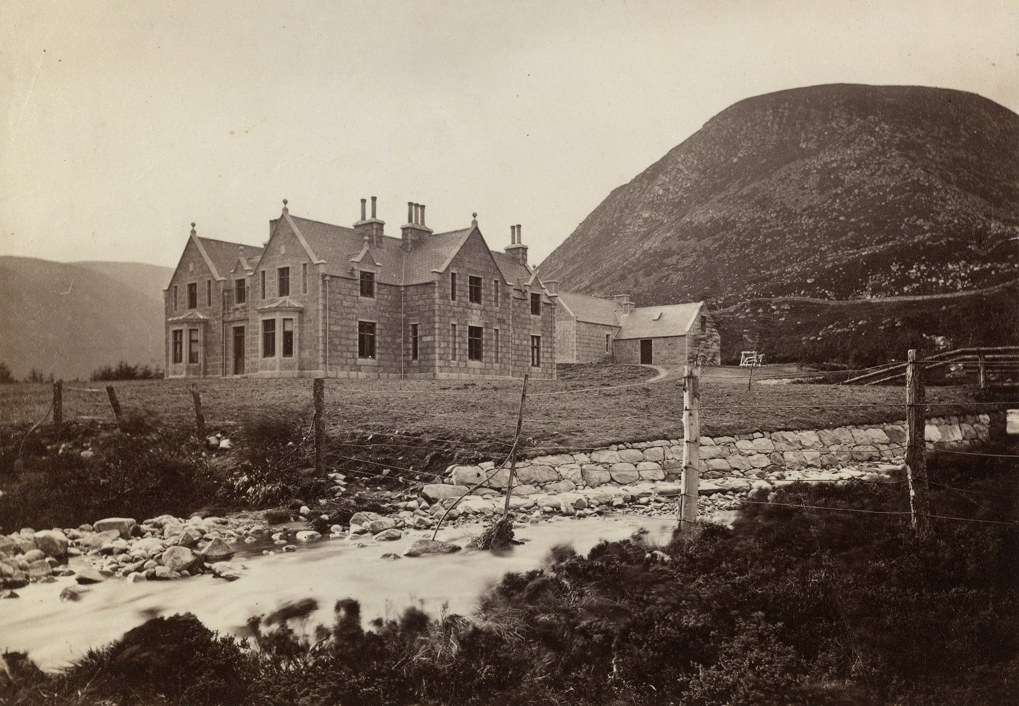 Attributed to George Washington Wilson (1823-93) Glassalt Shiel at Glen Muick, on the Balmoral Estate c. 1870 Albumen print | RCIN 2140241 Photograph of Glassalt Shiel, a large house at Glen Muick on the Balmoral estate in the centre left of the photograph. In the right of the background stands a hill and a stream runs in the foreground.